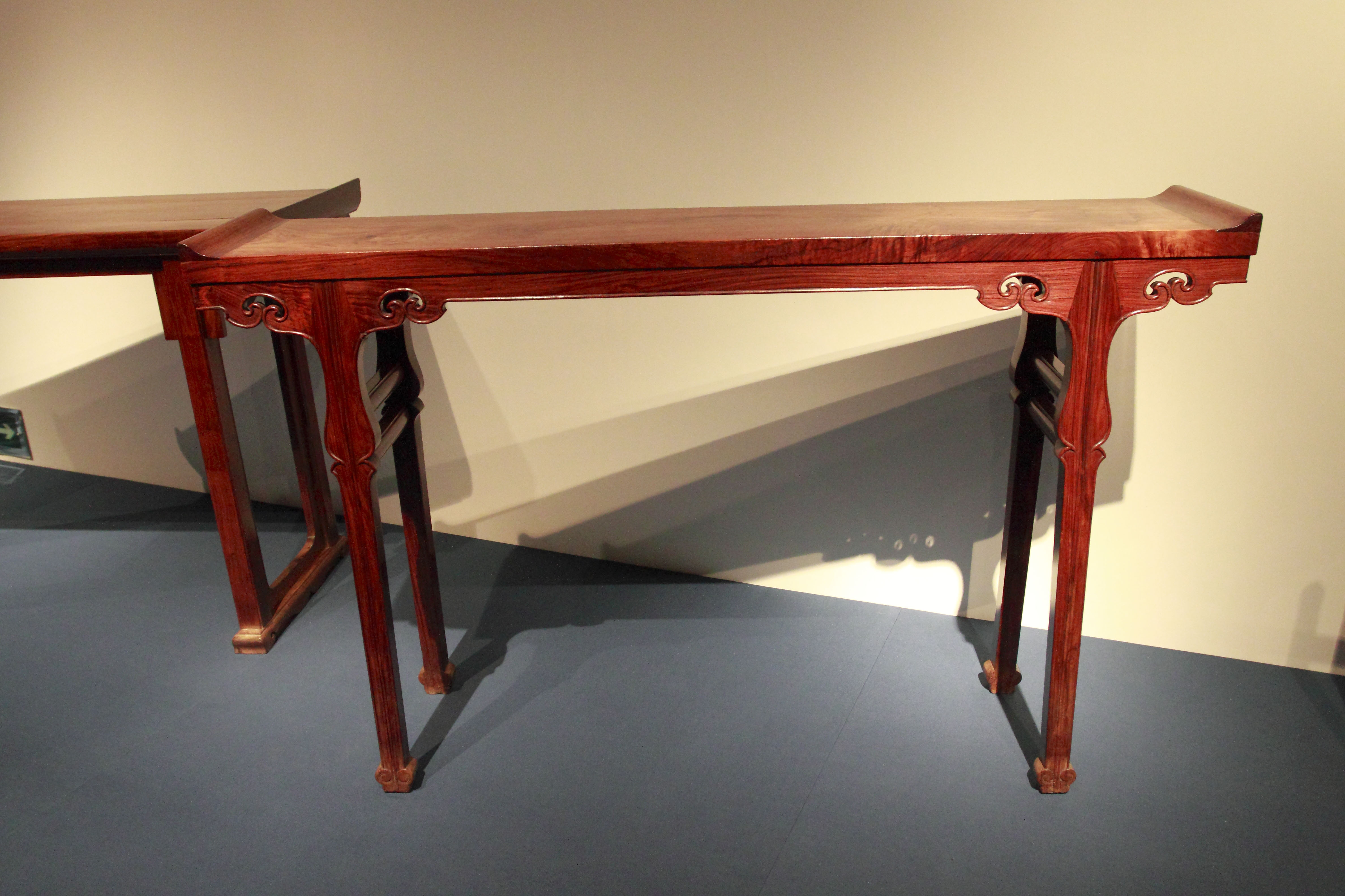 narrow table with recessed legs, everted flanges and inserted shoulder joints, Huanghuali wood (Dalbergia odorifera)，Ming Dynasty (1368 to 1644), a collection of Shanghai Museum